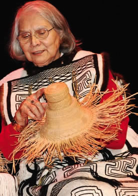 Delores E. Churchill demonstrates Haida basketweaving during the 2006 NEA National Heritage Fellows concert.